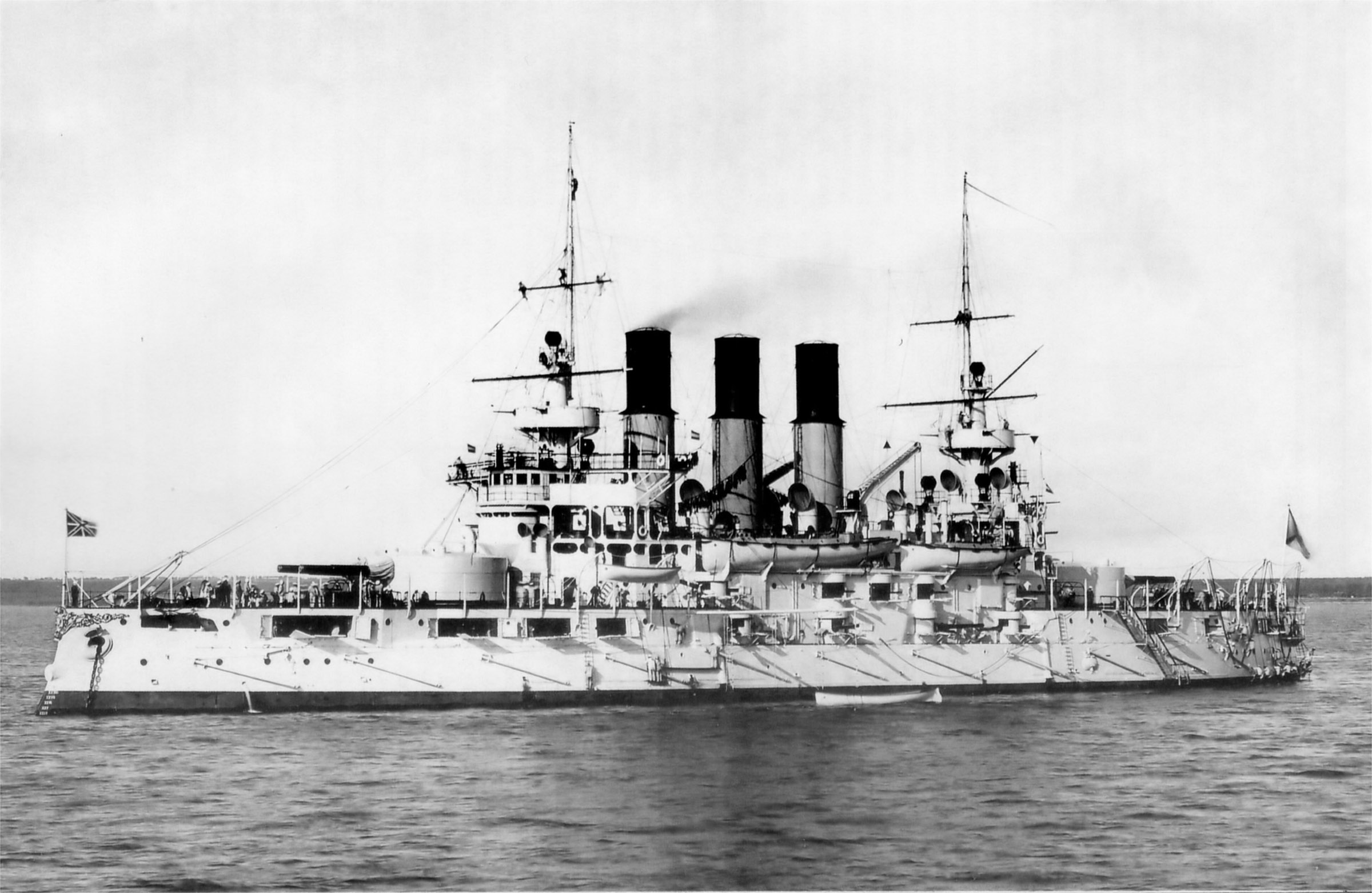 Imperial Russian battleship Retvizan in Kronshtadt, summer 1902.